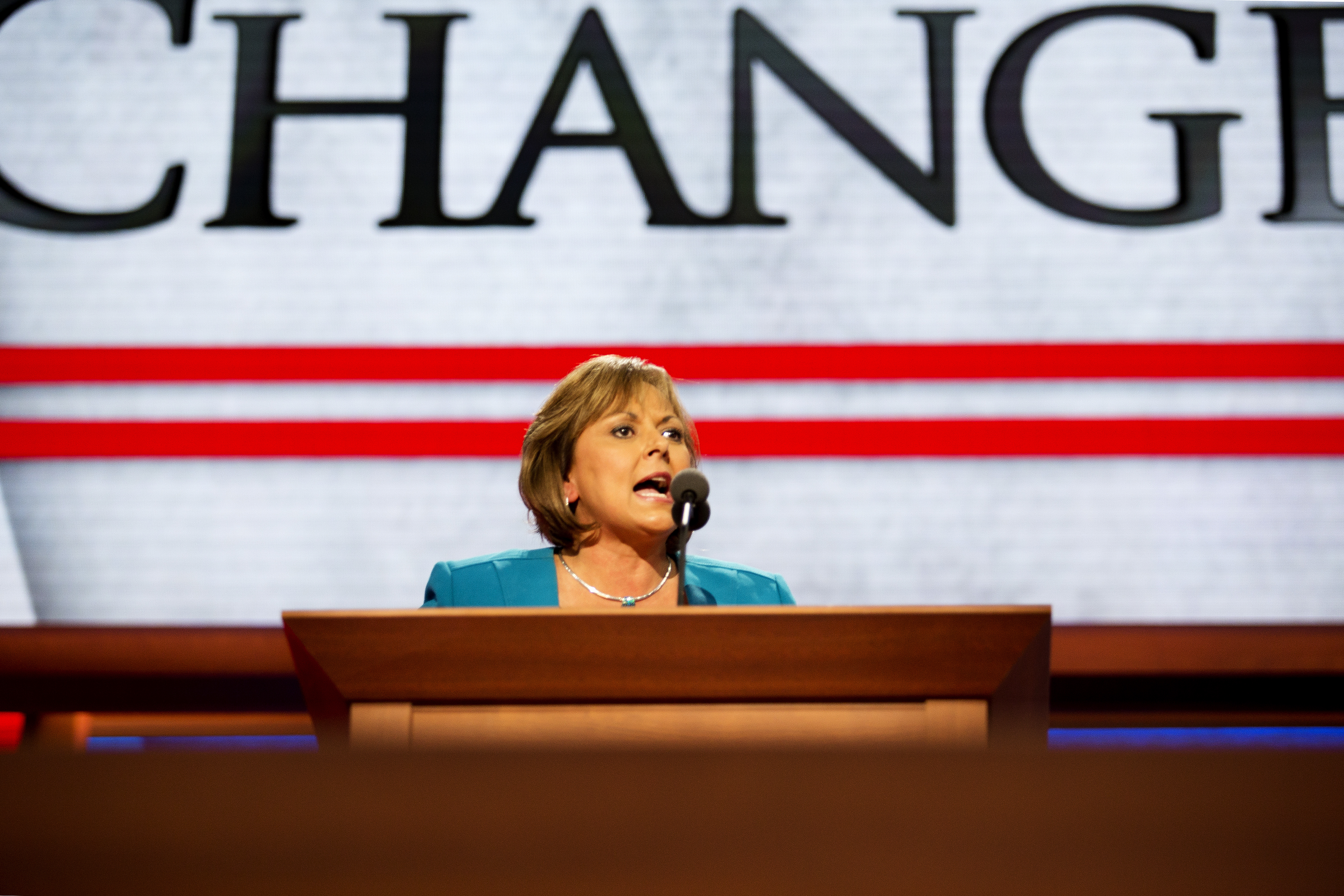 Susana Martinez, Governor of New Mexico, gives a speech on August 29 at the Republican National Convention. Photo by Mallory Benedict/PBS NewsHour